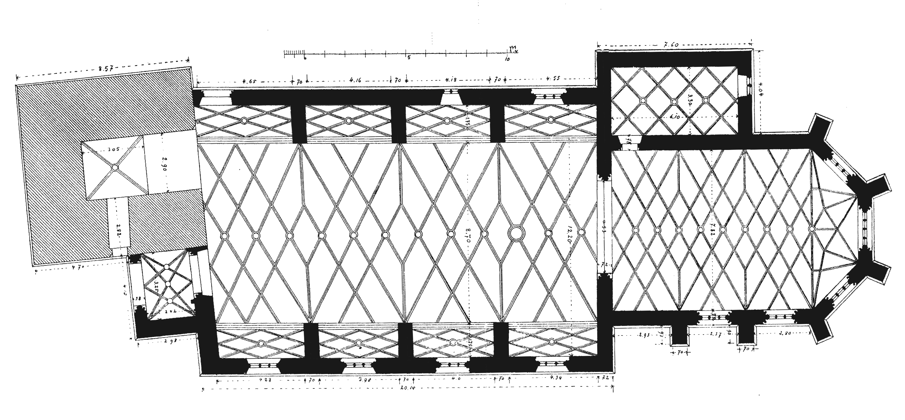 Floor plan of St. Veit church Gärtringen Der Grundriss ist auf Basis von File:StVeitGaertringenPaulusGrundriss.png erstellt. Der darin enthaltene Fehler (die Strebepfeiler im Langhaus sind nicht korrekt dargestellt, der Winkel, mit dem diese an die Nord- bzw. Südwand stoßen ist nicht korrekt wiedergegeben) wurde anhand dem Grundriss von Christa Szesny-Halbauer (1995) korrigiert (veröffentlicht in: Karl Halbauer: Bau- und Kunstgeschichte, Baugeschichte. In: Evangelische St.-Veit-Kirche Gärtringen: 1496–1996. Seite 122)